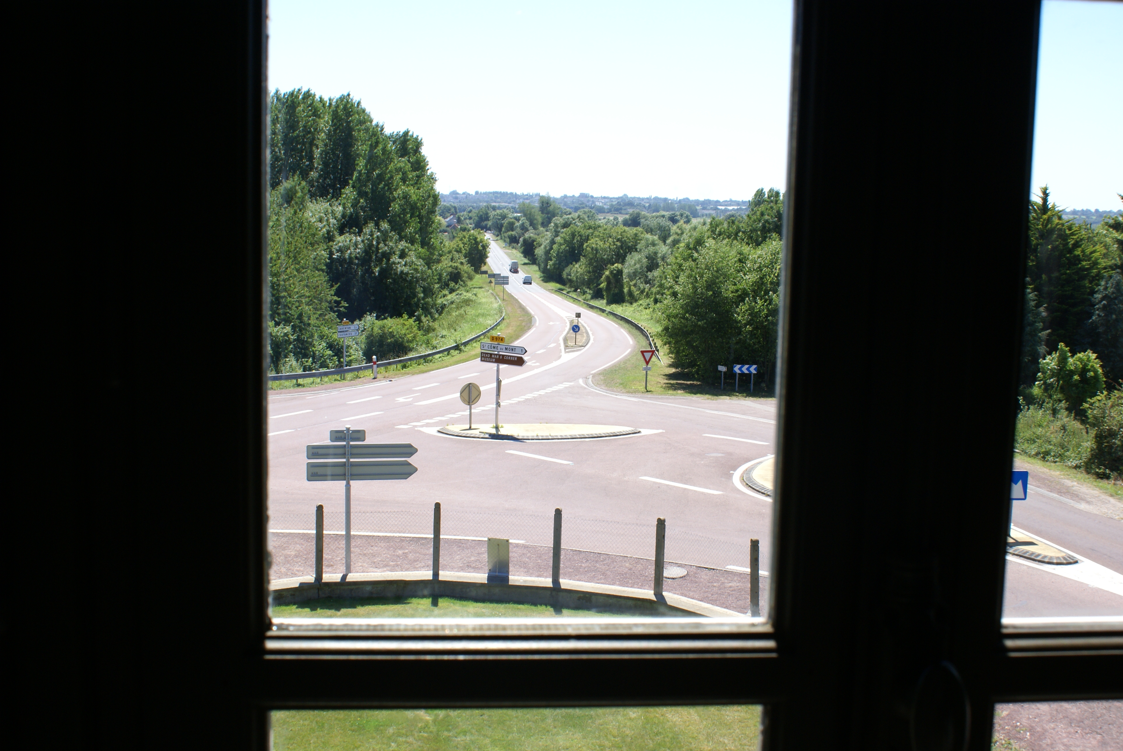 Dead Man's Corner intersection, near Carentan, France